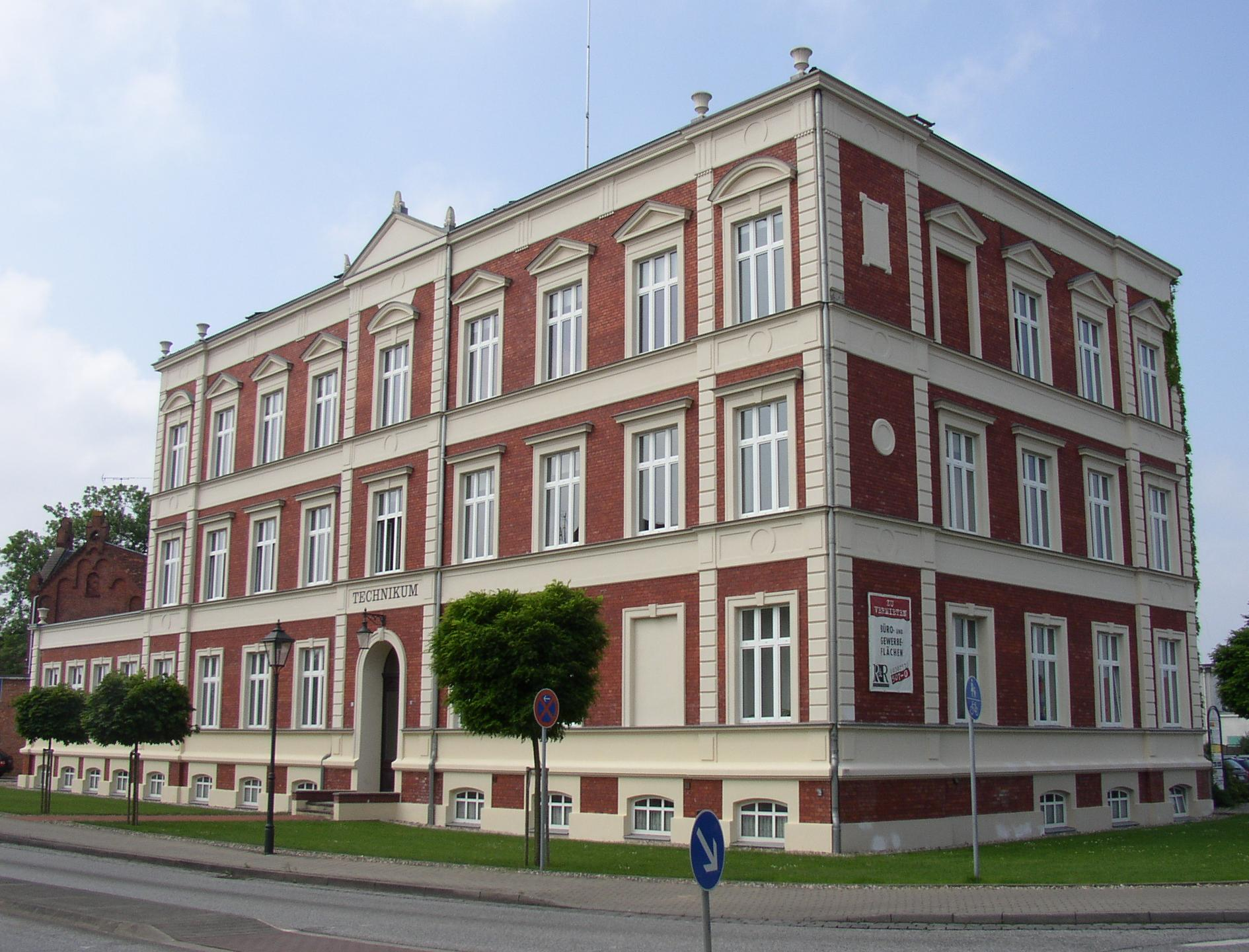 Technical school in Neustadt-Glewe in Mecklenburg-Western Pomerania, Germany